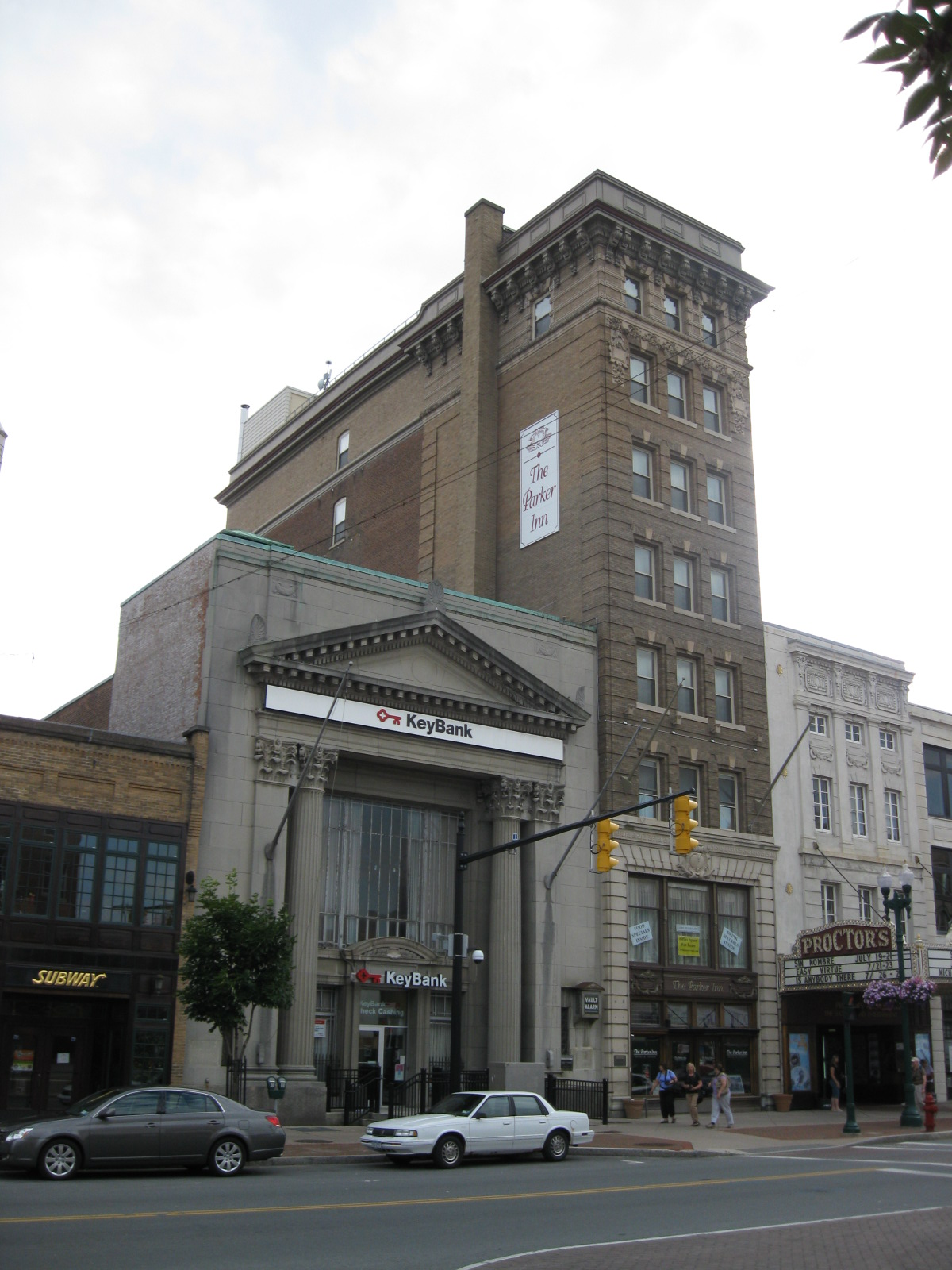 Southside of State Street, Schenectady, New York